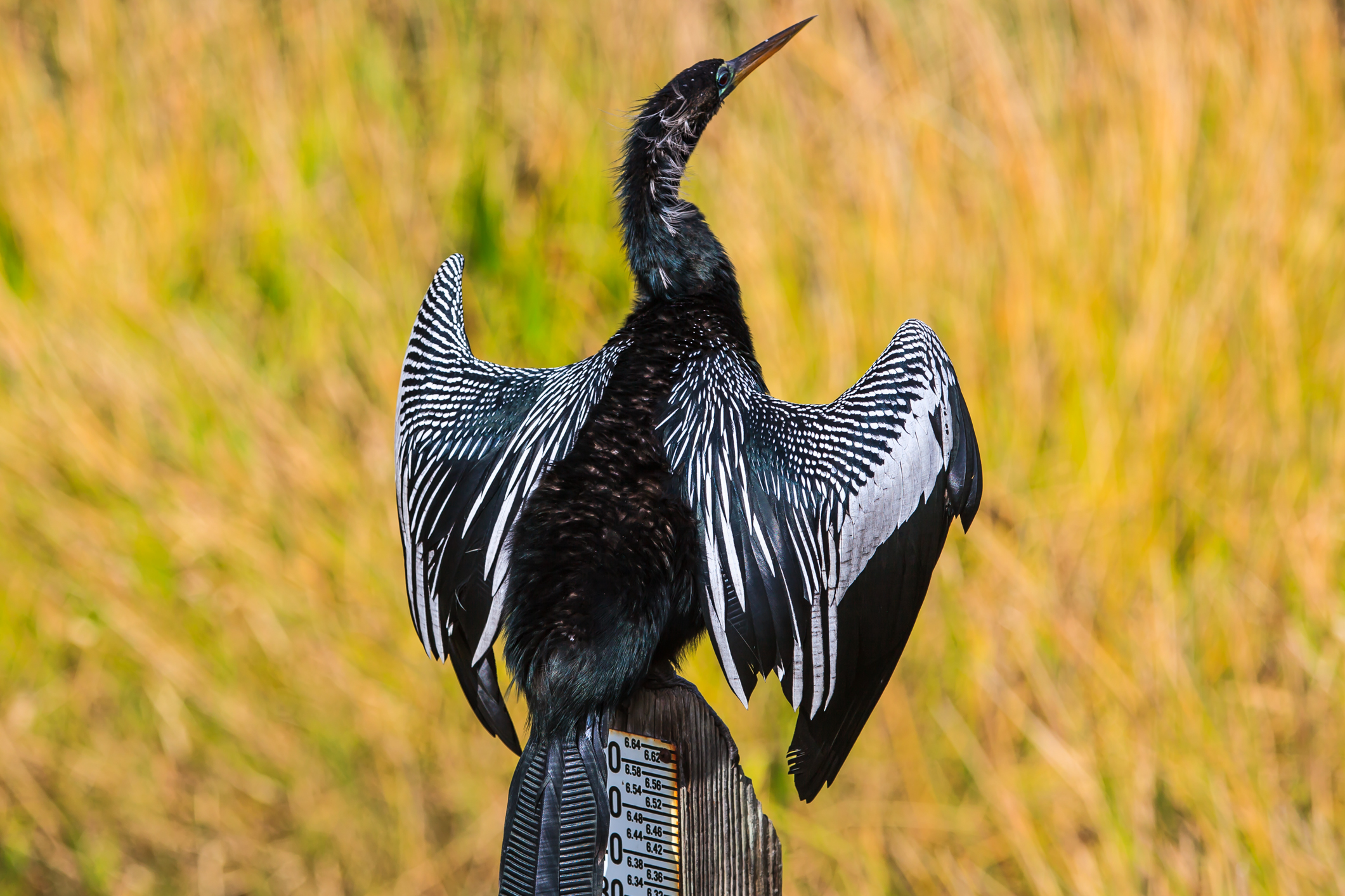 Florida Everglades-Anhinga